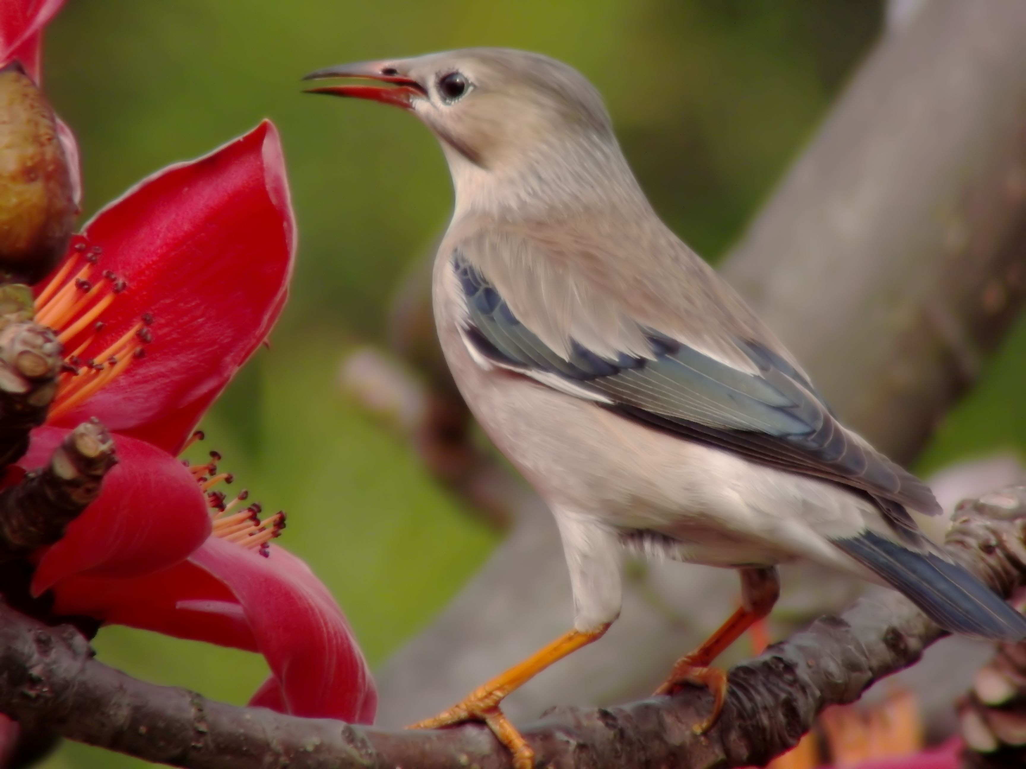 Red-billed Starling Spodiopsar sericeus, Lek Yuen, Hong Kong, China